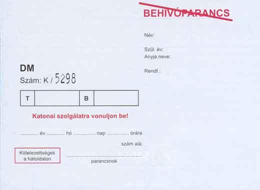 Hungarian Army Draft call paper (sample)